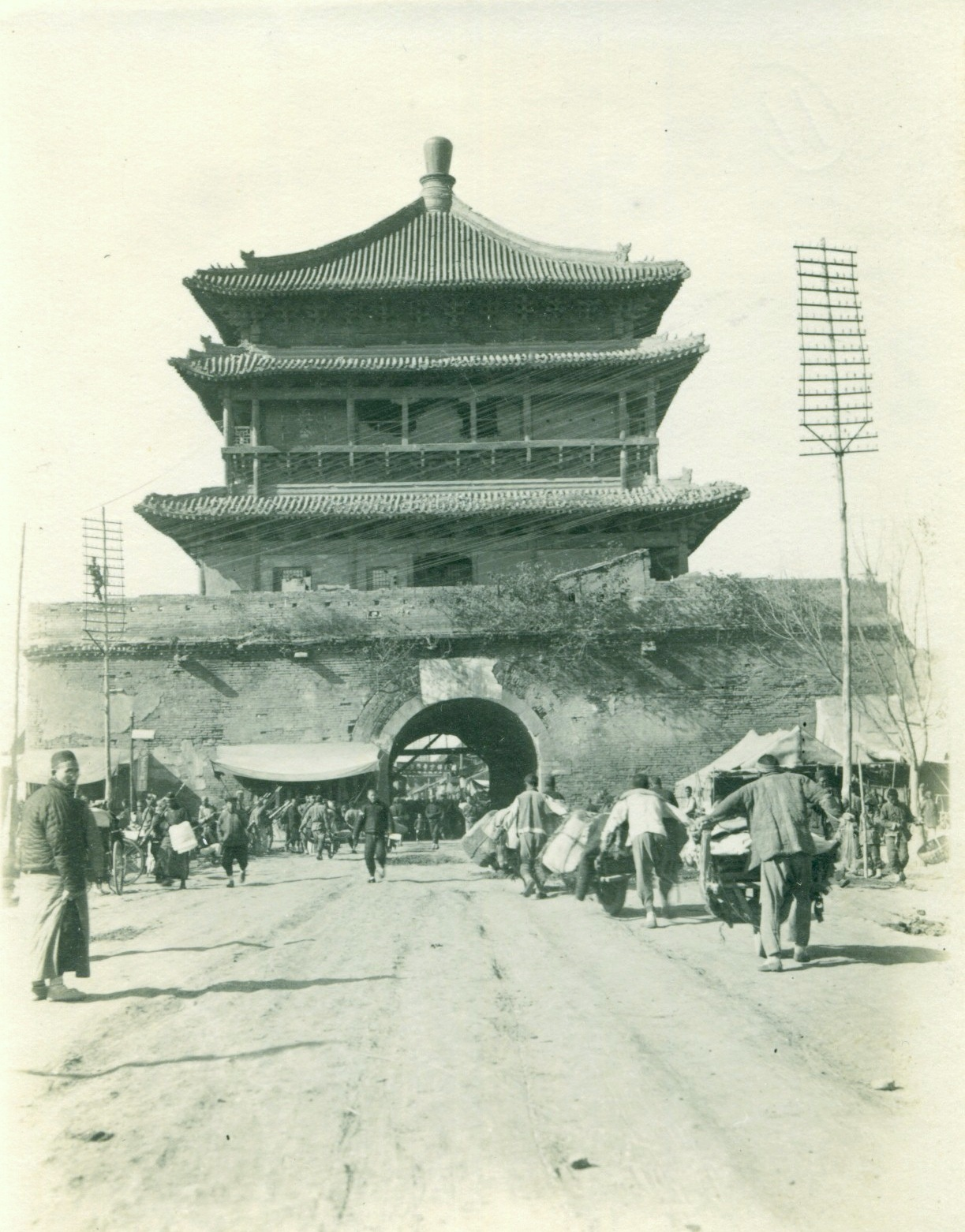 Bell Tower at Xi'an, China, early 20th century.